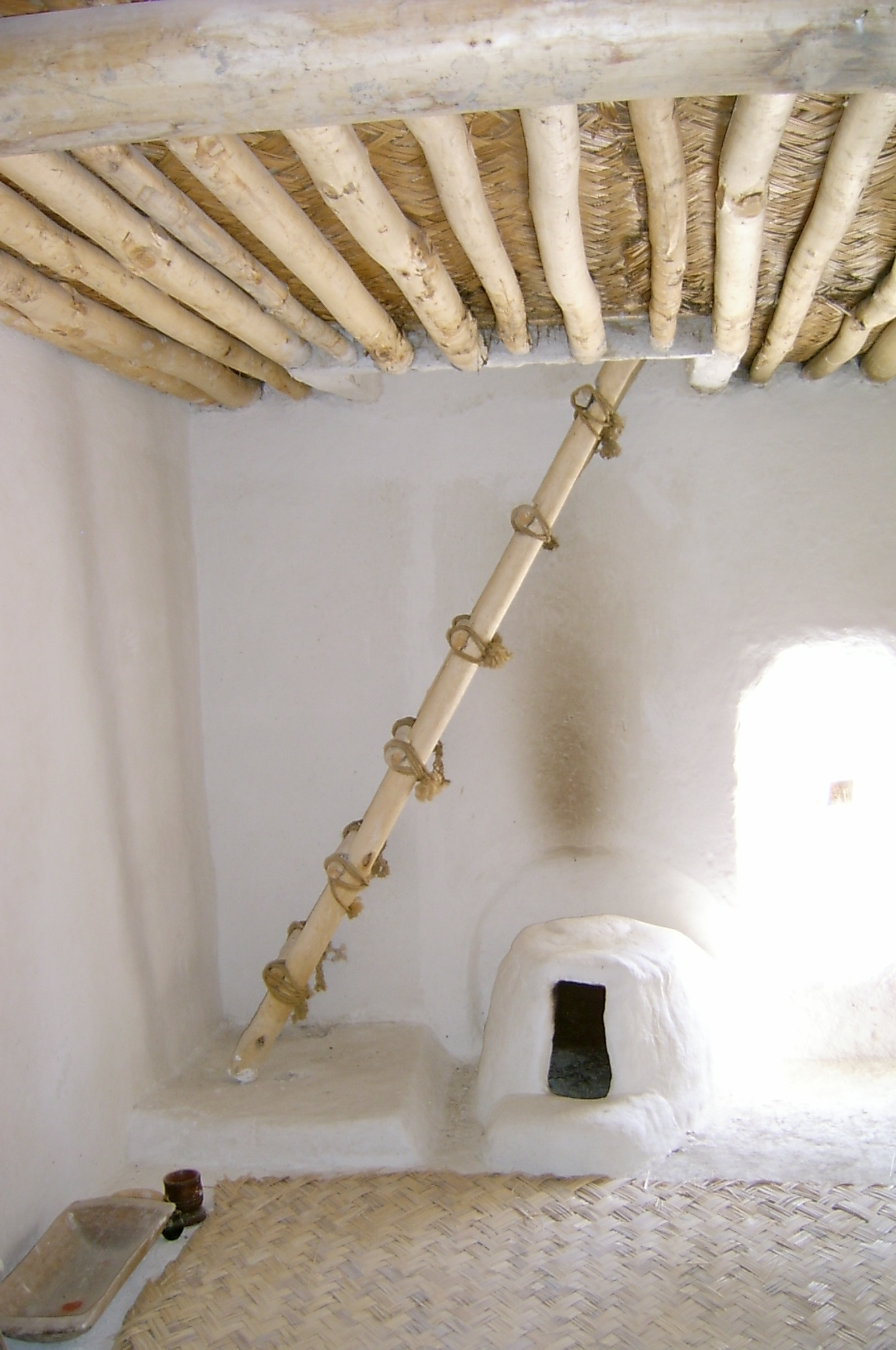 Inside a model of a neolithic house at Catal Hüyük